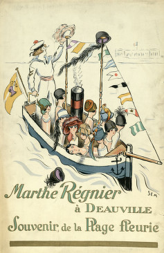 Caricature of women in a shape of bowling pins wearing different hats on a boat that is being sailed by a sailor carrying a hat. There is a building with a flag in the background. The boat is decorated with multiple different flags.